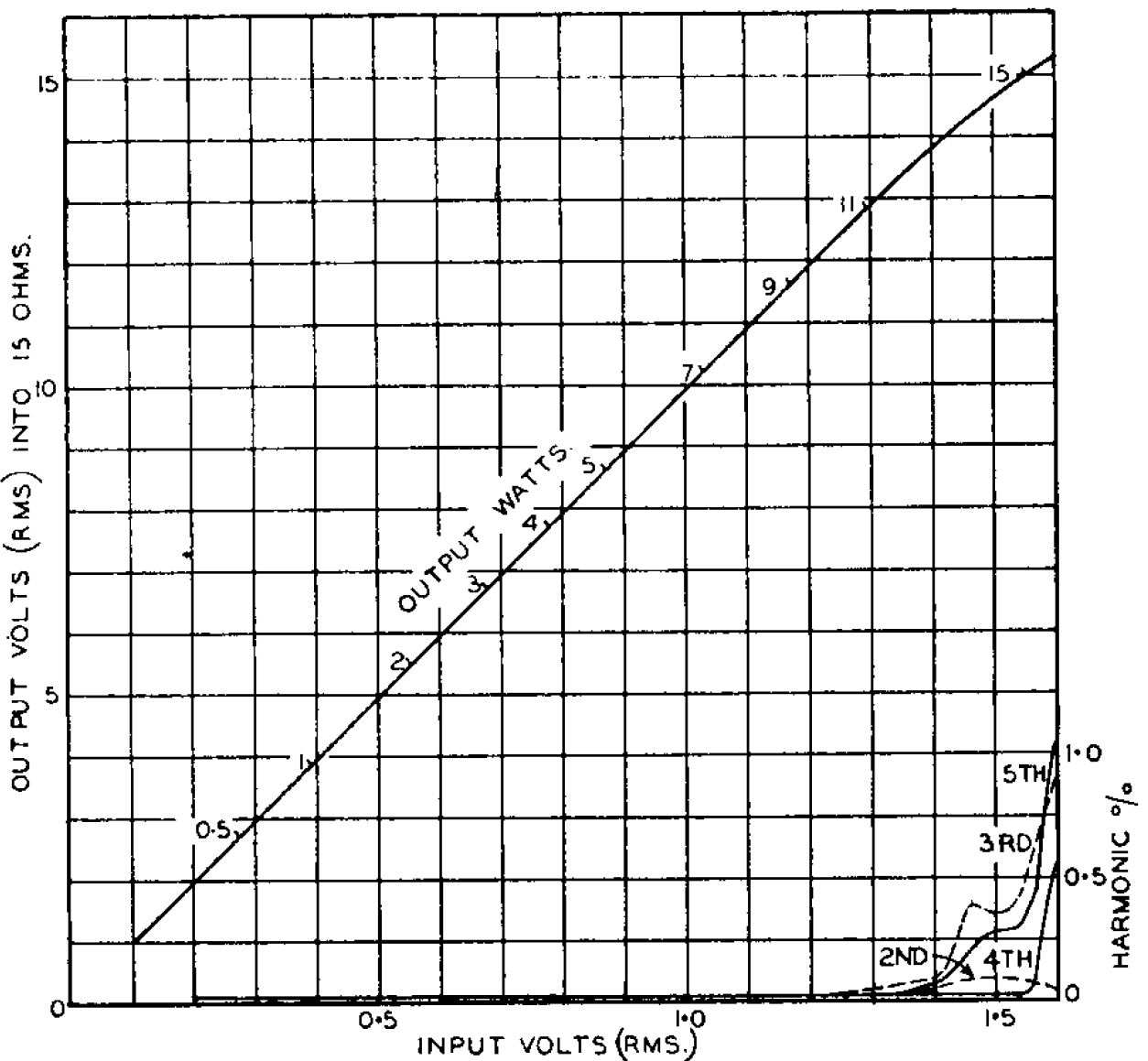 Transfer and distortion measurement of the Williamson amplifier. 1947 Australian adaptation with 6SN7-GT and 807 tubes by Astor and Langford-Smith